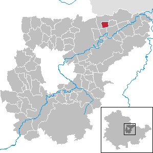 Ködderitzsch in Thuringia - District Weimarer Land